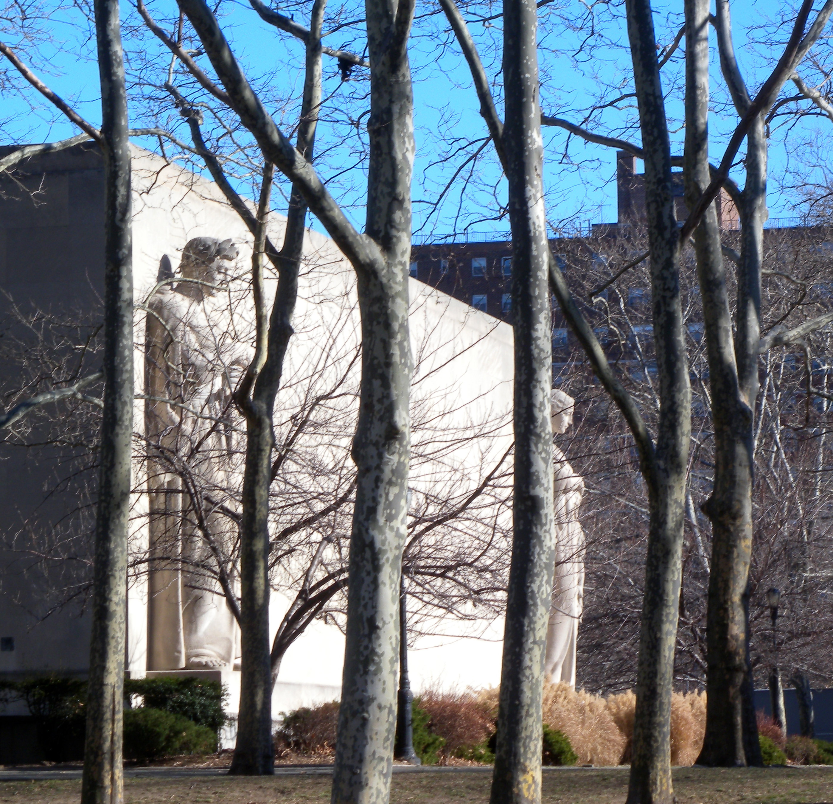 Looking northeast at Brooklyn War Mermorial in Cadman Plaza on a sunny midday. See also File:Bkwarmemjeh.JPG.